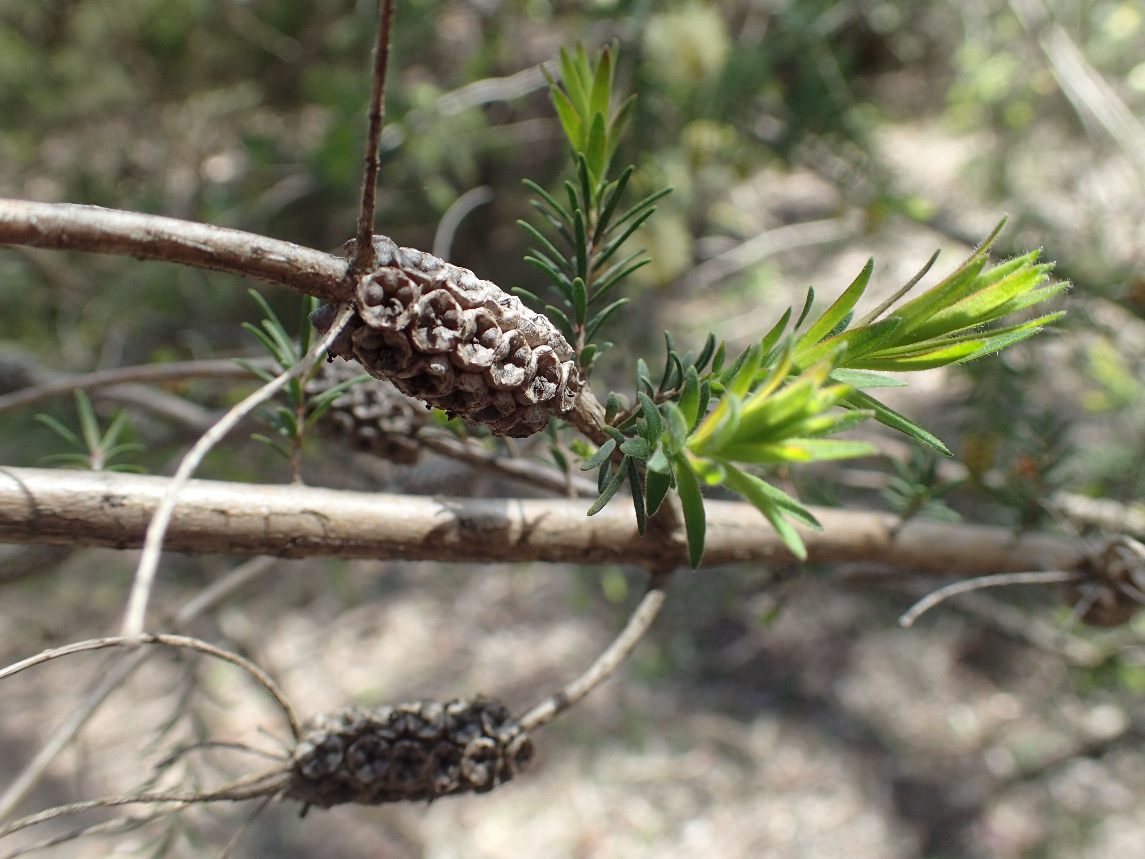 Melaleuca incana subsp. tenella in the Australian National Botanic Garden